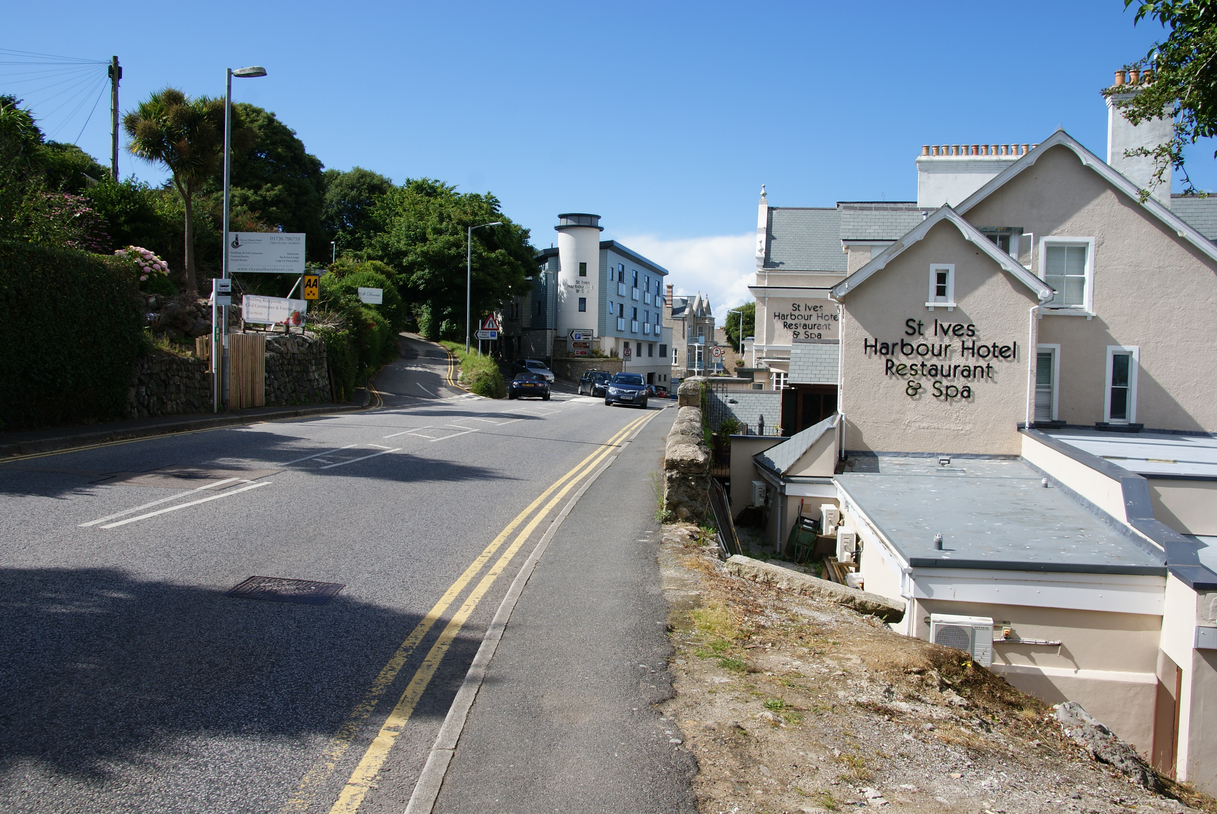 St Ives Harbour Hotel